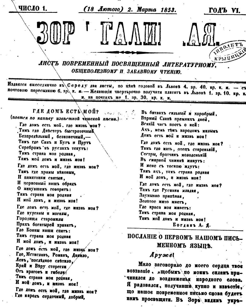 Newspaper "Zoria halytska", 1853